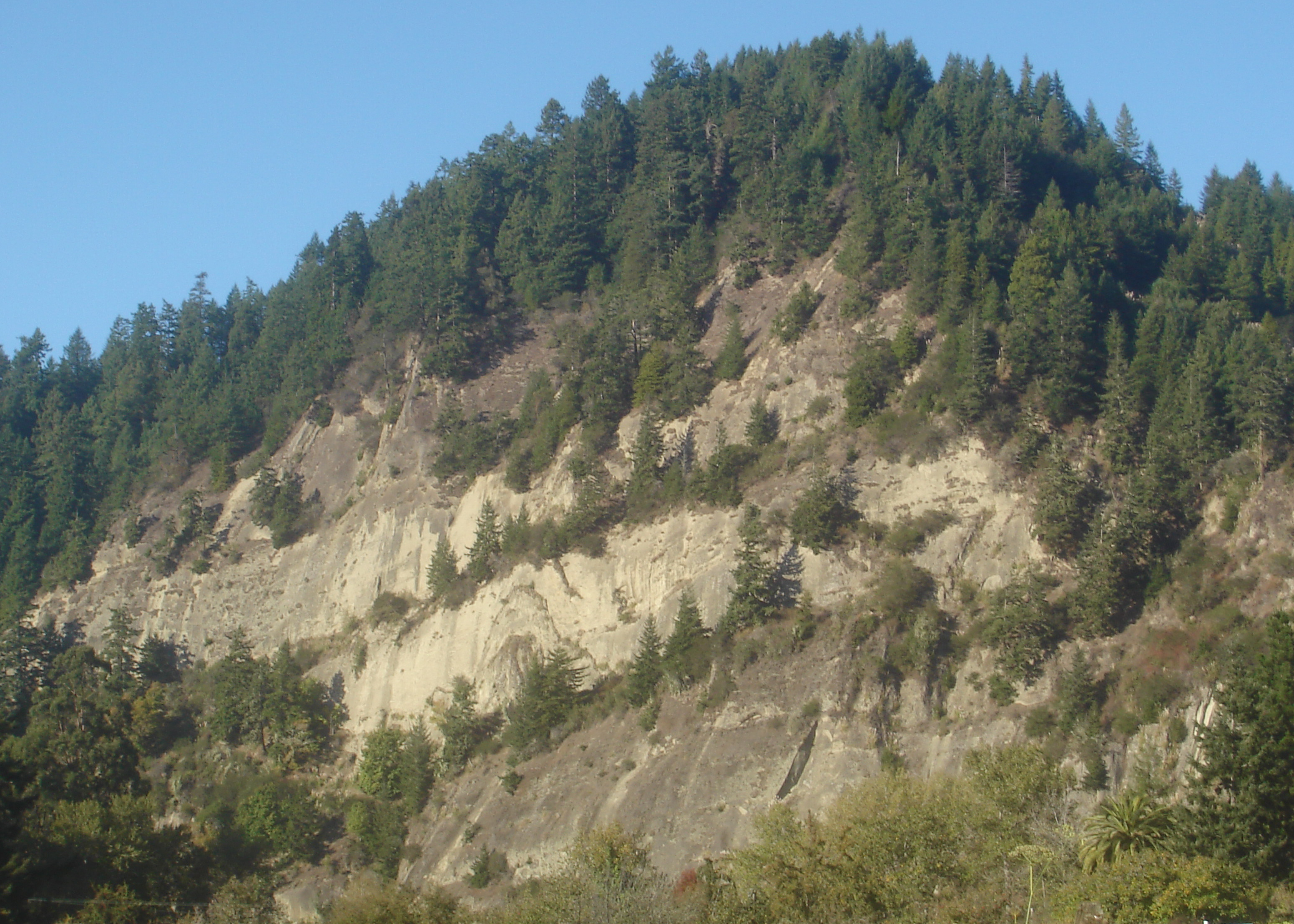 Upper portion of Scotia Bluff viewed from Rio Dell, California.